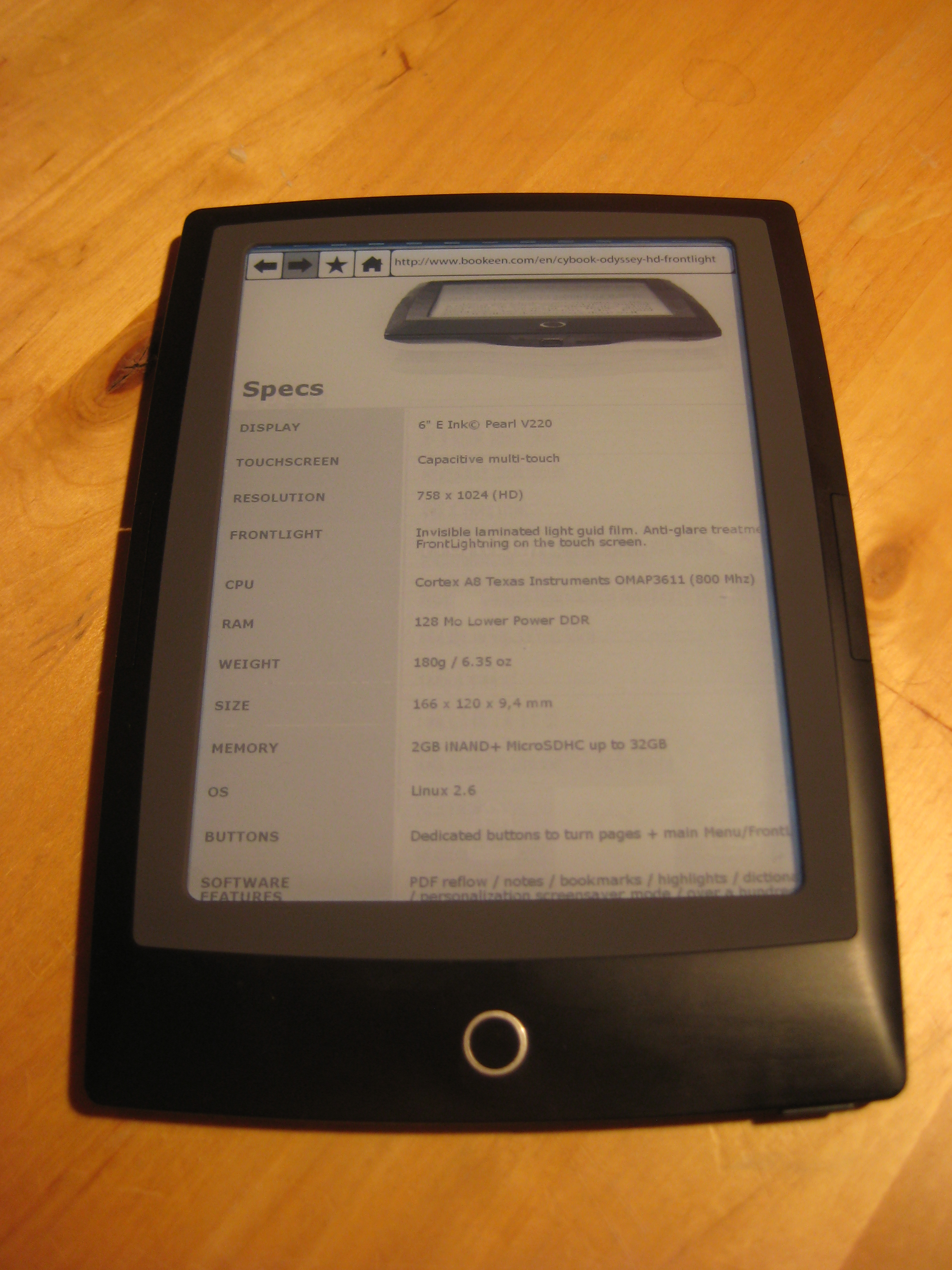 eReader BOOKEEN Cybook Odyssey HD FrontLight